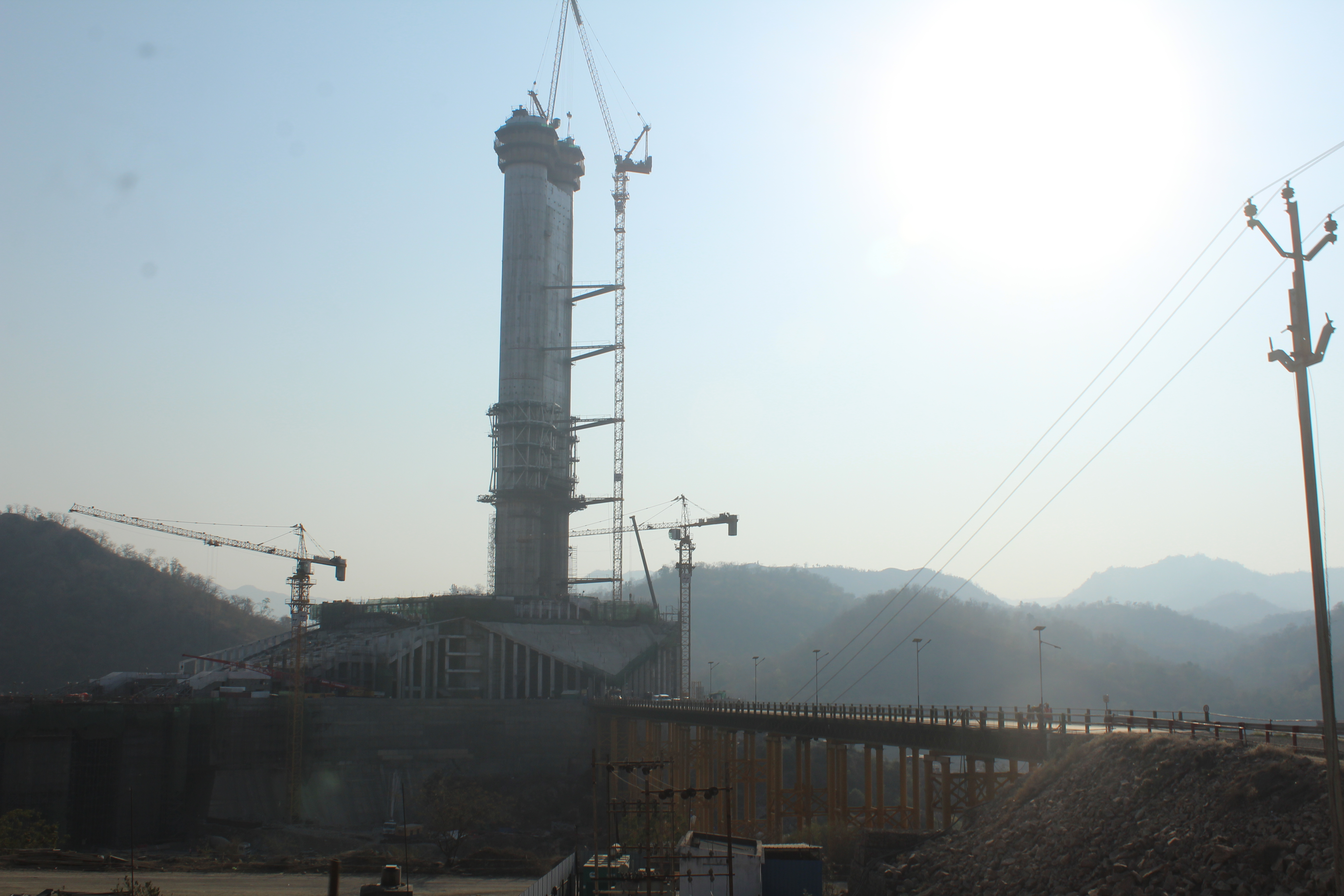 Depicted place: Statue of Unity statue of unity under construction - Vallabhai Patel statue at Gujarat